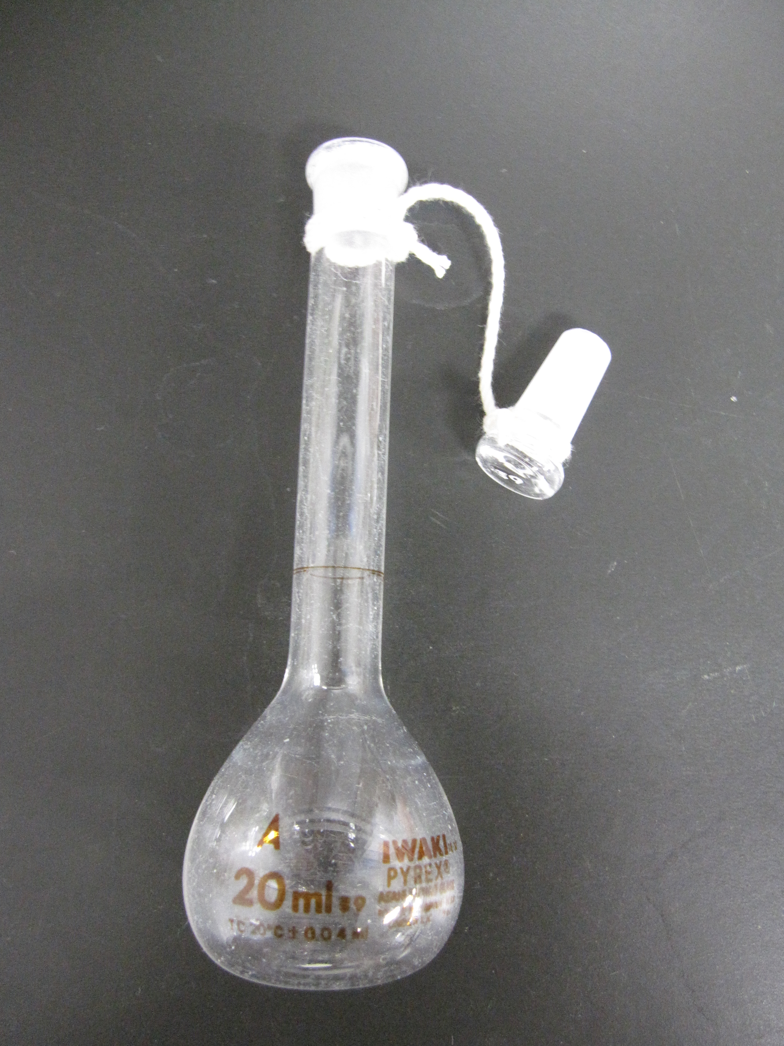 Photograph of a volumetric flask bined with the plug by a string